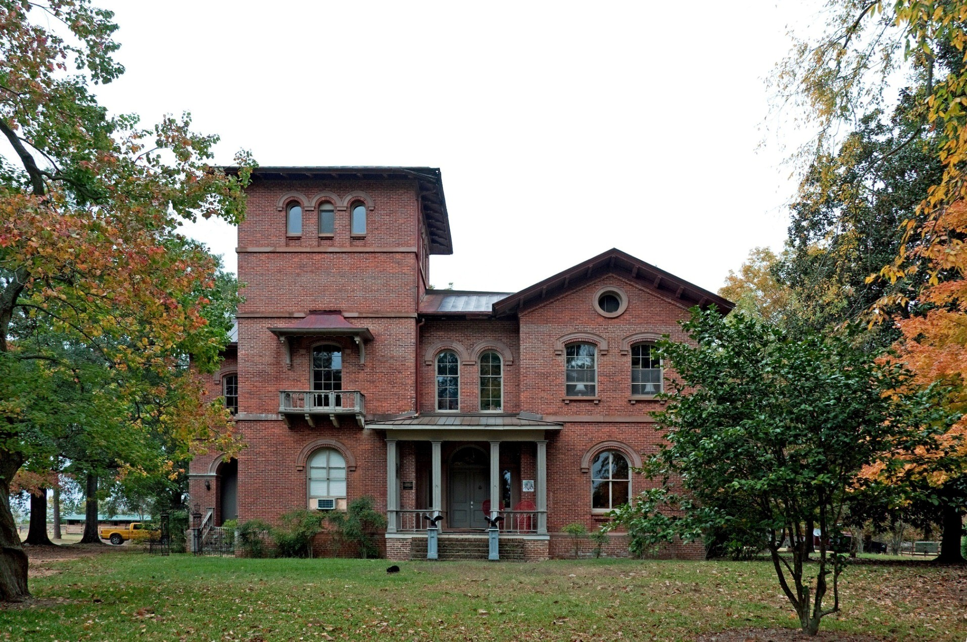 Kenworthy Hall on the outskirts of Marion, Alabama.